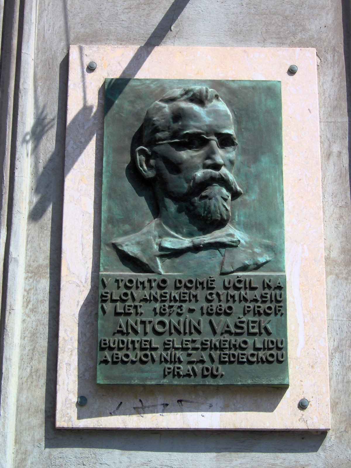 Memorial plague of czech writer Antonín Vašek, Brno, Czech Republic